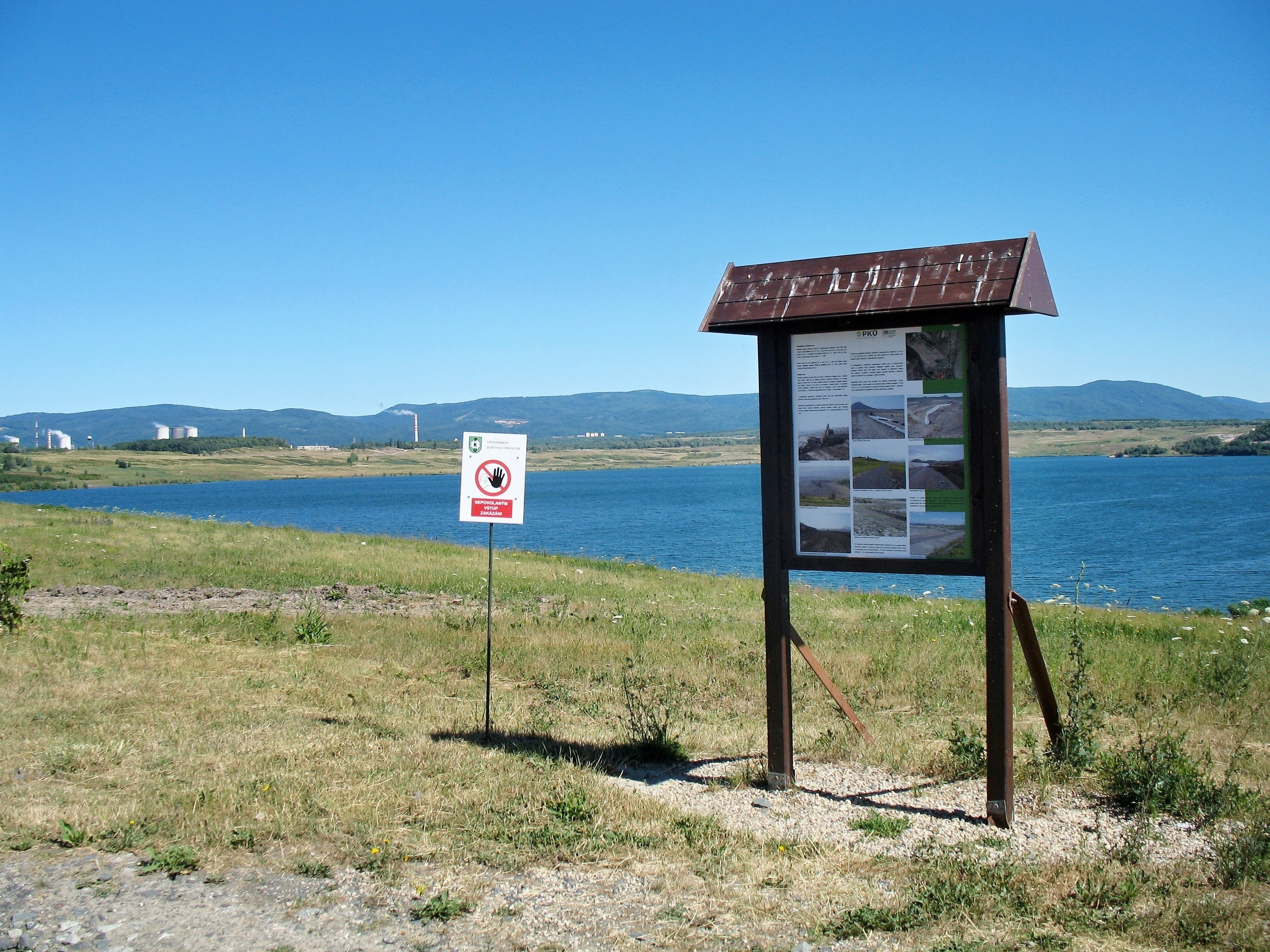 Most Lake, former Coal Mine Ležáky, Northern Bohemia, Czech Republic